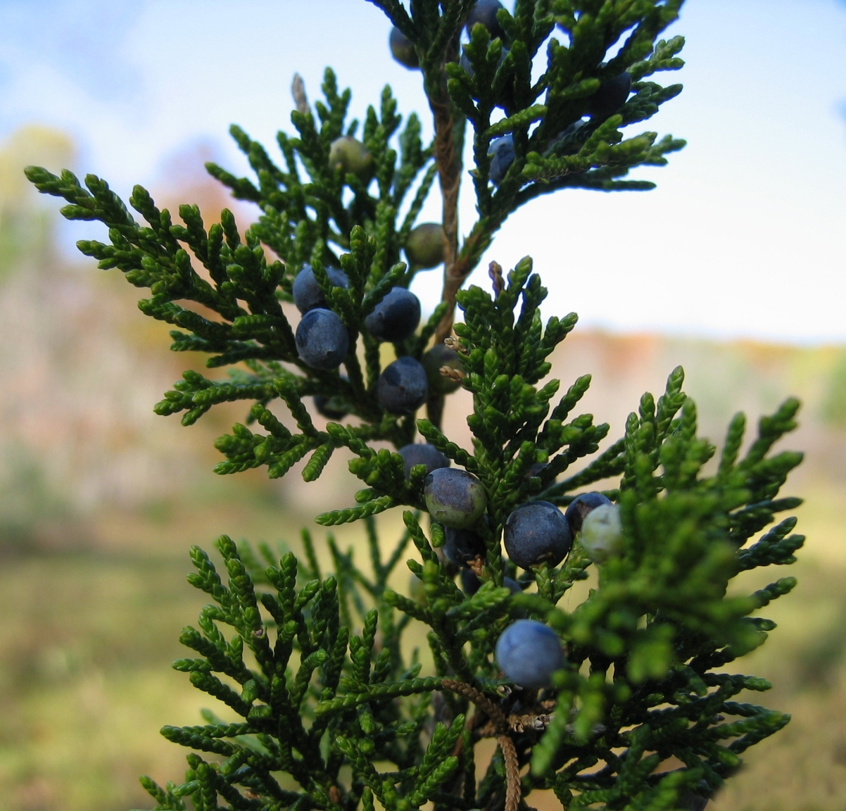 Juniperus virginiana foliage and cones, Maine, USA